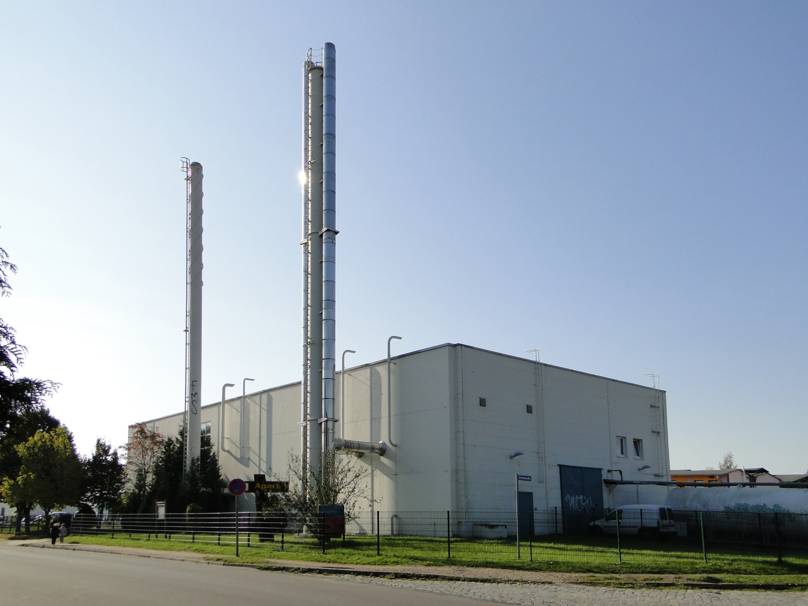 Geothermische Heizzentrale in Neubrandenburg, Mecklenburg-Vorpommern, Germany